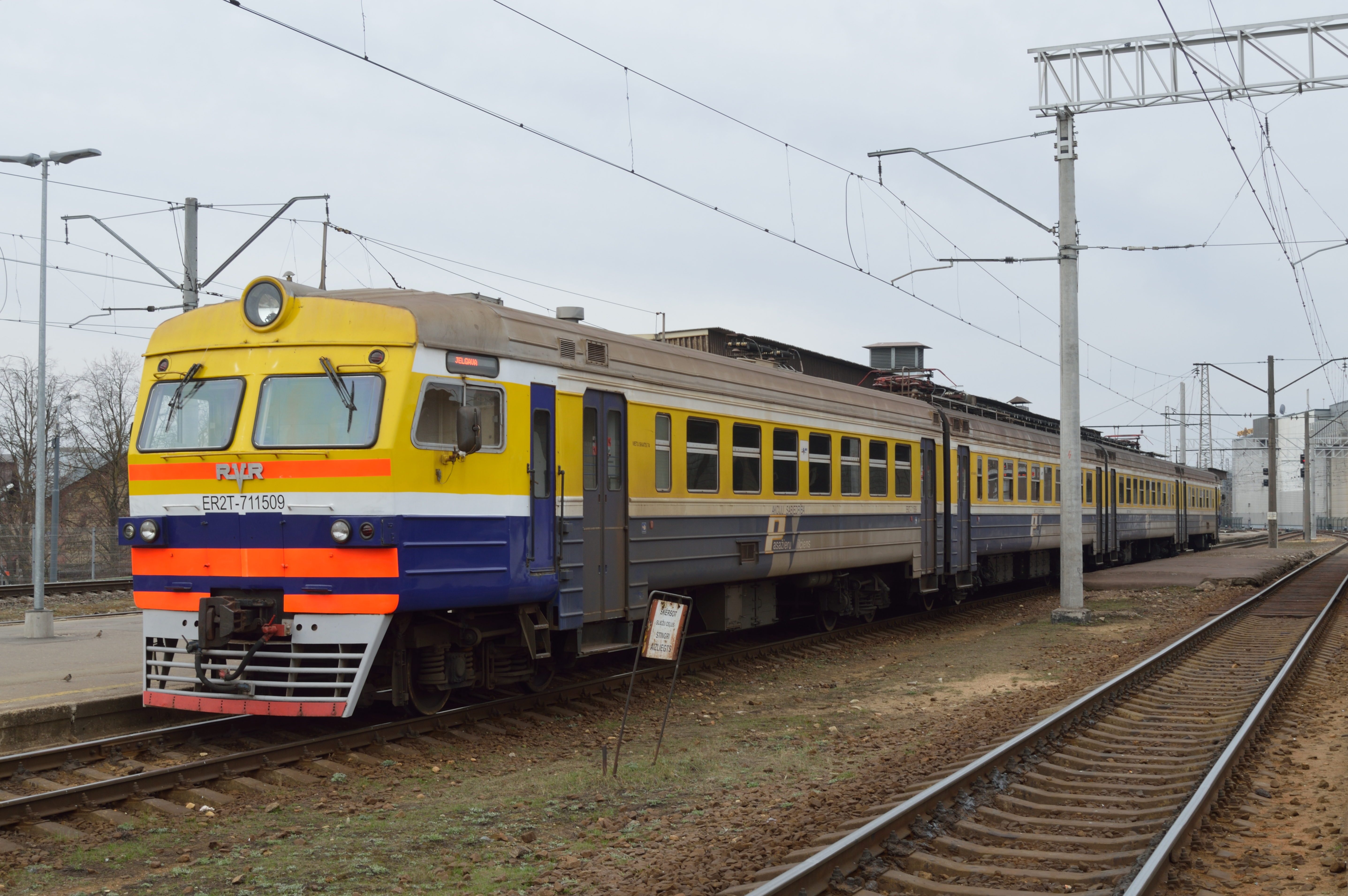 4-car refurbished ER2T set with vehicle number 711509 leading is seen on 6 April 2014 forming train 6715, 11:00 Rīga Pasažieru to Jelgava.